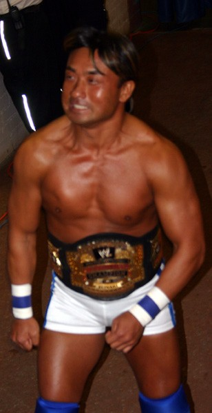 Sho Funaki makes his entrance on a WWE house show held in Kitchener, Ontario, Canada on January 15, 2005.